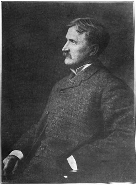 Photograph of American author Emerson Hough (1857-1923) which appeared in the March 1909 issue of The Bookman, p. 15